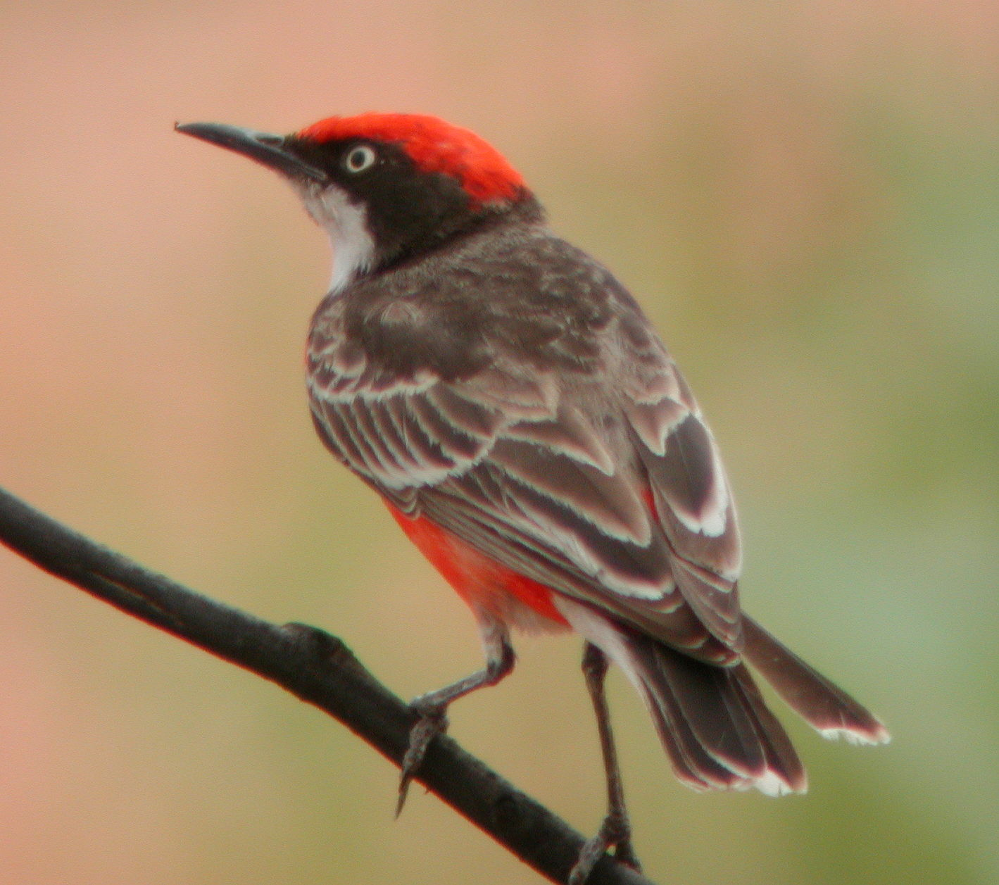 Crimson Chat (Epthianura tricolor) Newhaven NT Australia